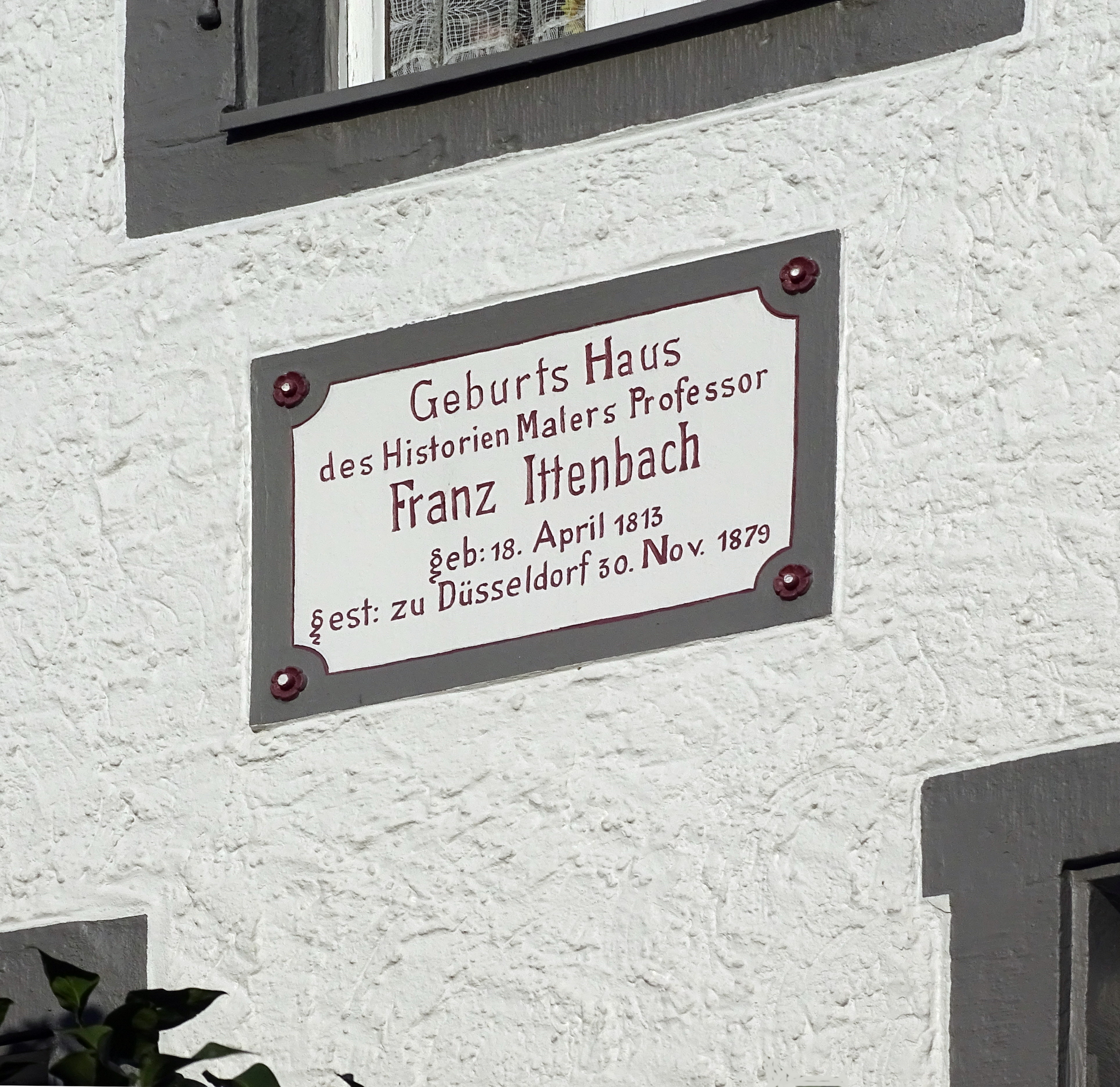 House in Königswinter, Altenberger Gasse 14: inscription on the gable